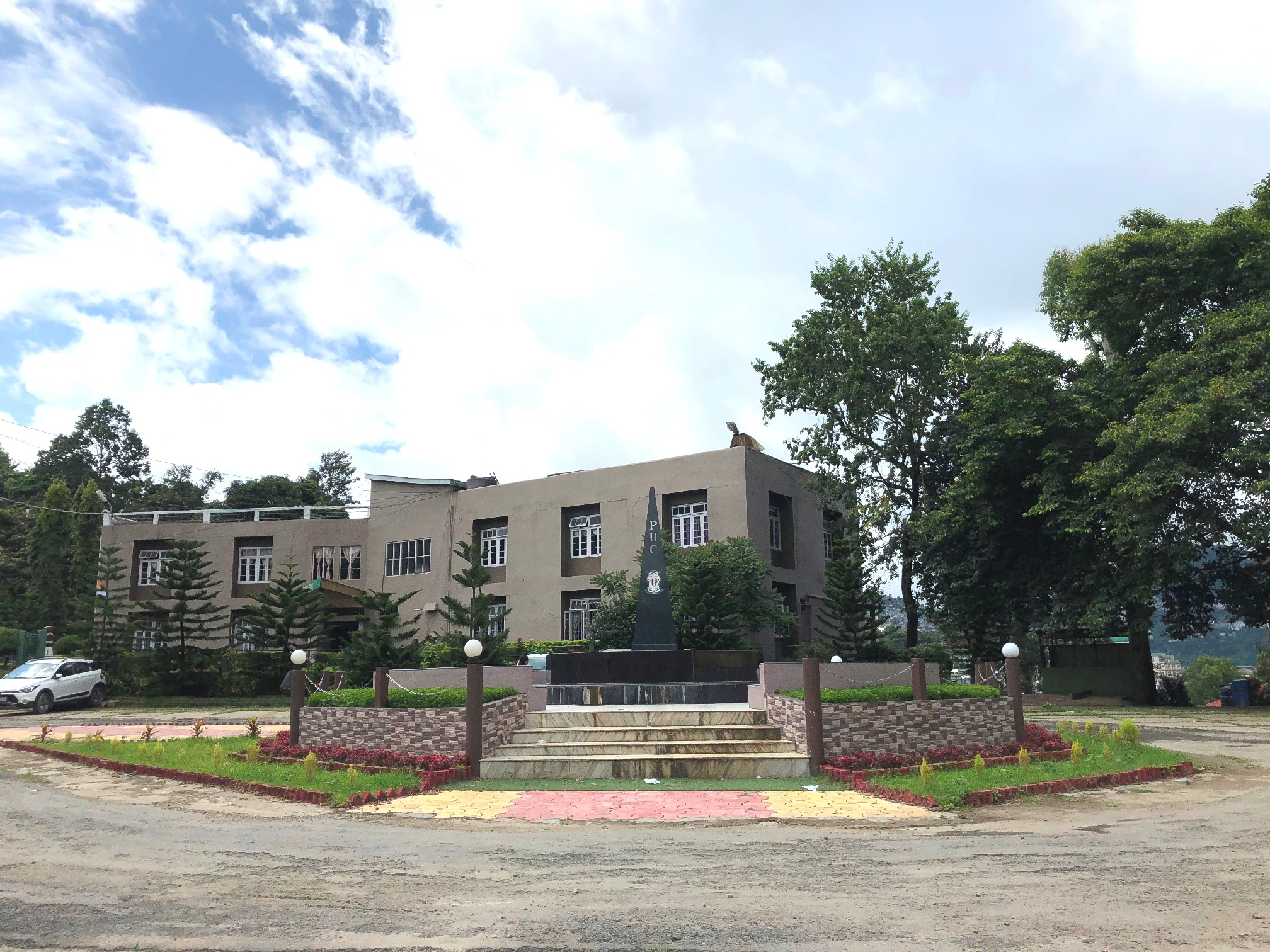 Administrative Building of Pachhunga University College.